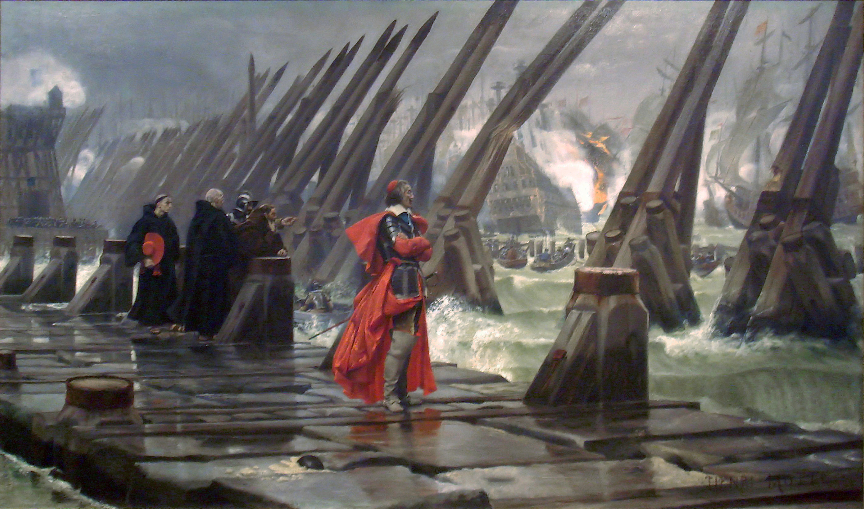 dressed in red: Cardinal de Richelieu